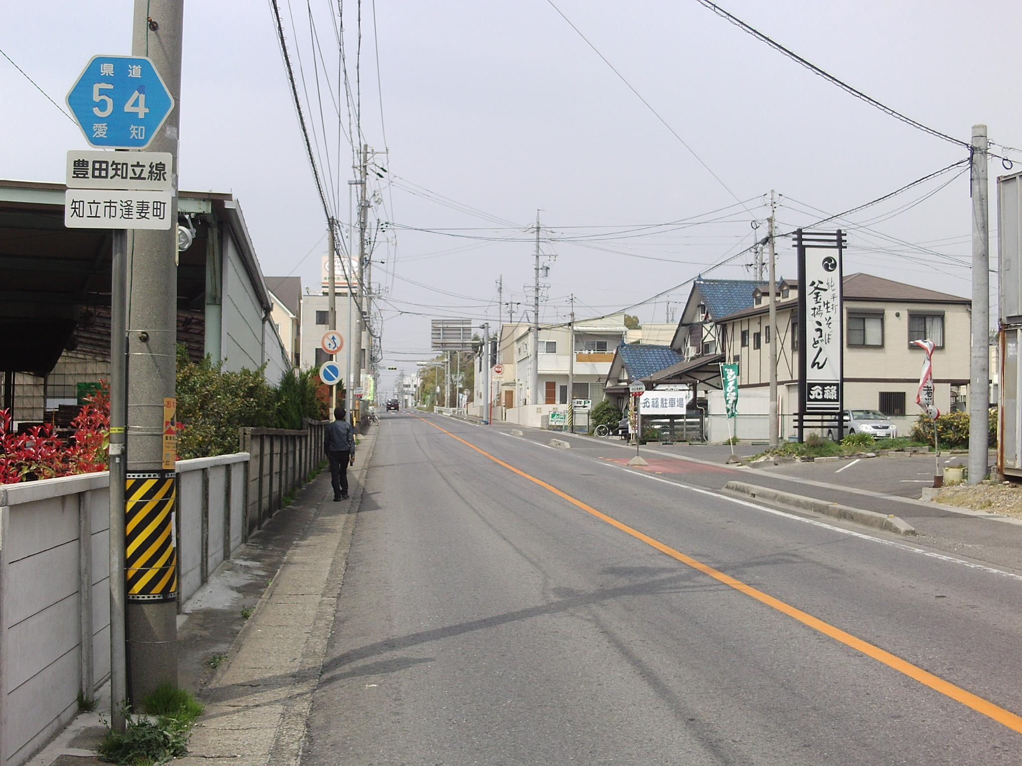 Aichi prefectural road No.54 in Aidzumacho, Chiryu, Aichi.